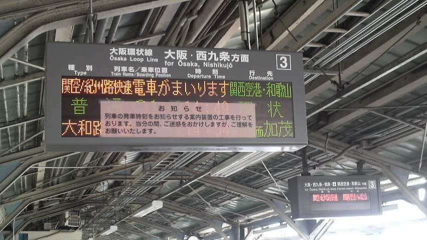 West Japan Railway Kyobashi Station Testing Destination Guidance Board